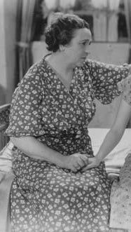 Aurelia Musto- actress